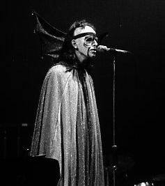 "The watcher of the skies" Genesis, Massey Hall, Toronto, Oct. 1974